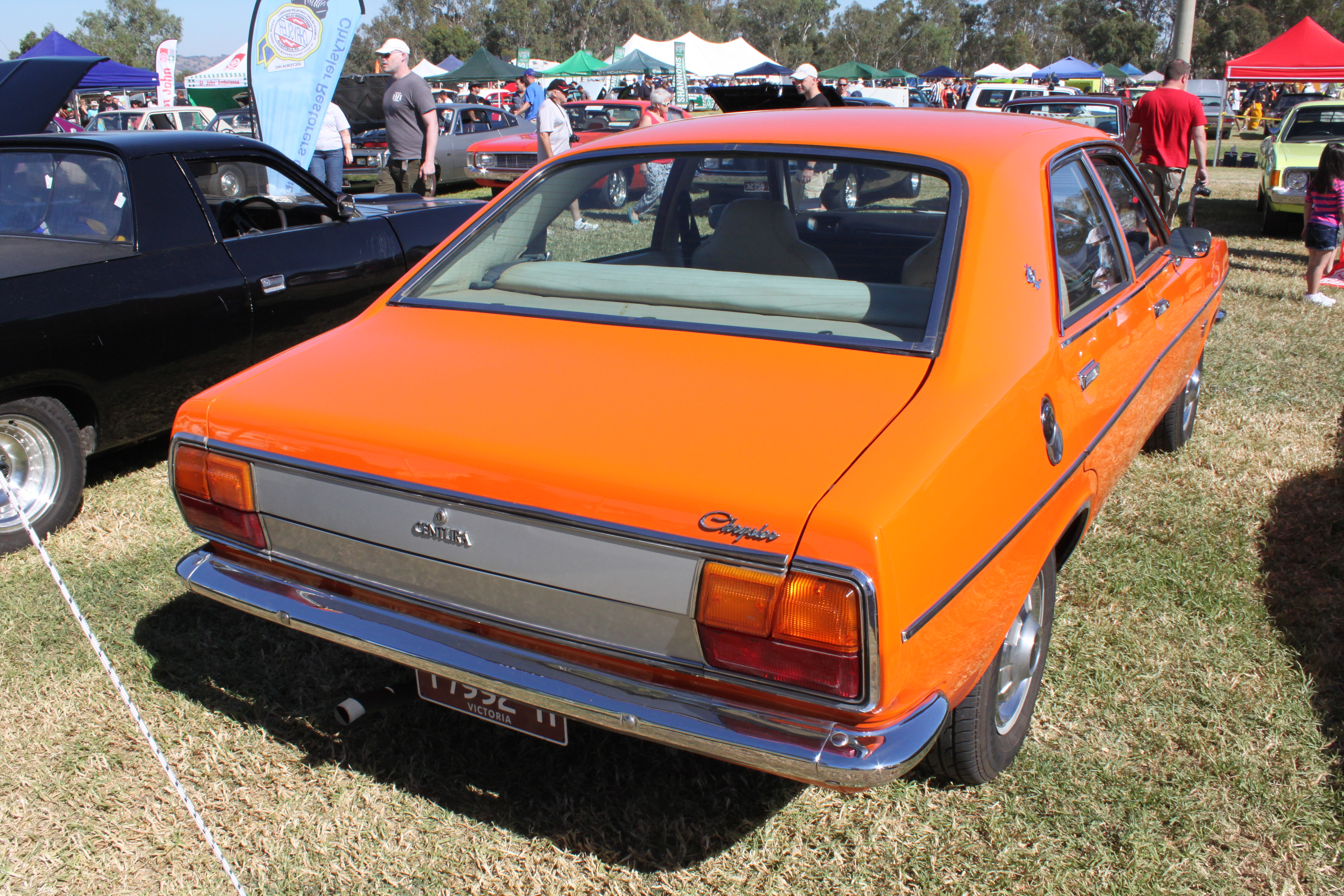 Chryslers on the Murray 2015